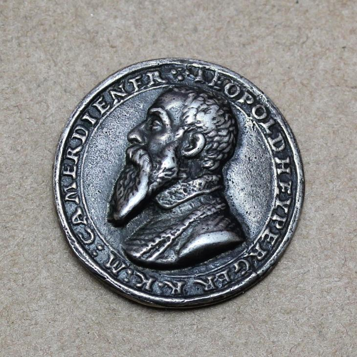 Ferdinand I's treasurer, Leopold von Heyperger depicted on a coin from the Hofburg Palace (c. 1550)